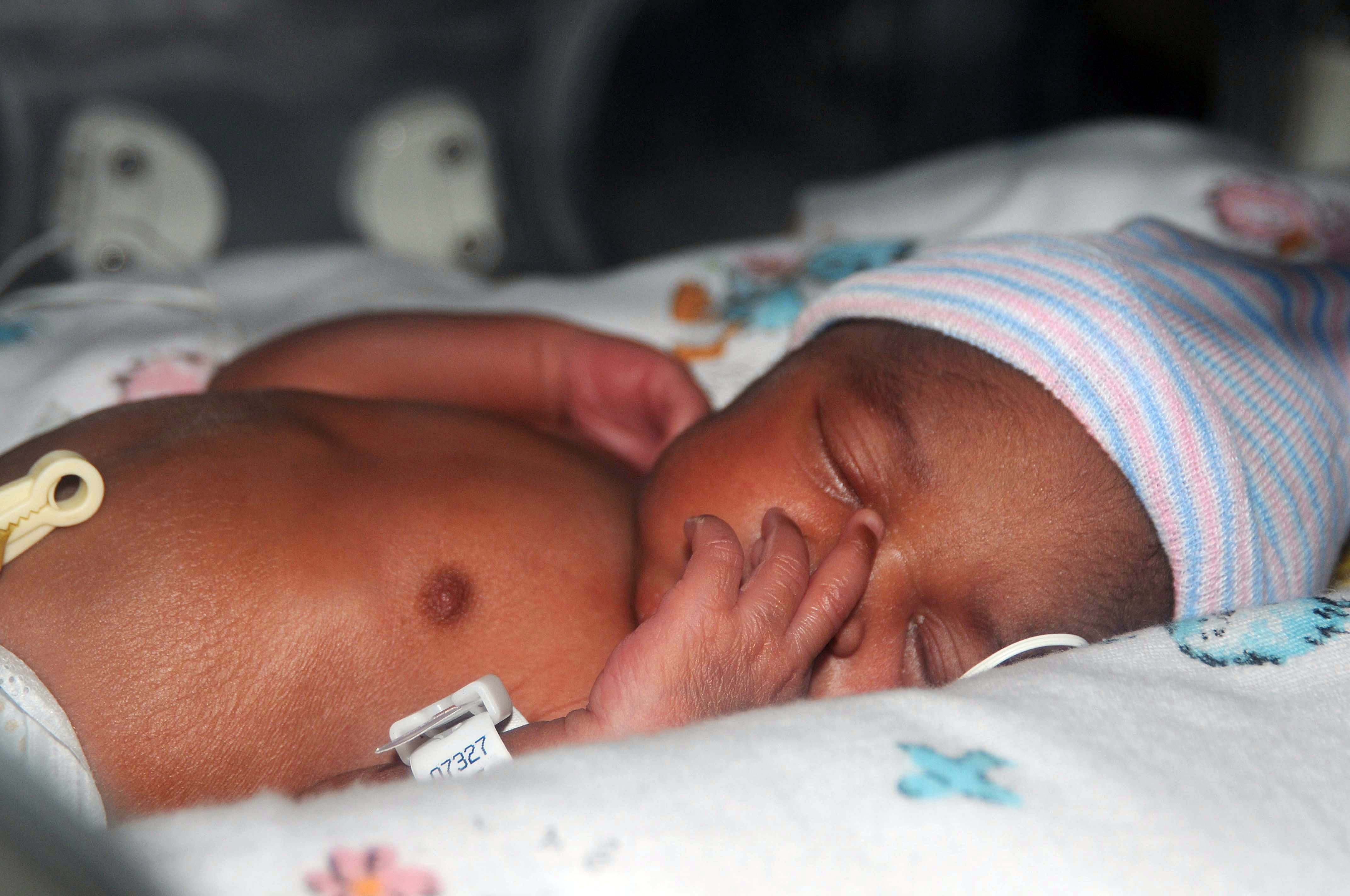 PORT-AU-PRINCE, Haiti (Jan. 21, 2010) Medical professionals aboard the Military Sealift Command hospital ship USNS Comfort (T-AH 20) delivered baby Esther at 2:27 p.m. on Jan. 21, 2010. She is the first baby delivered aboard the 1,000-bed floating hospital, which is in Haiti supporting Operation Unified Response. Weighing less than five pounds, baby Esther was delivered seven weeks prematurely by cesarean section as her mother sustained pelvis and femur fractures during the earthquake that struck Haiti on Jan. 12, 2010. Despite being premature, she is healthy and was delivered without complications. (U.S. Navy photo by Mass Communication Specialist 3rd Class Matthew Jackson/Released)